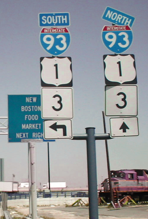 Northbound on the I-93 frontage road at Haul Road in Boston. An MBTA locomotive sits in a layover yard at right.